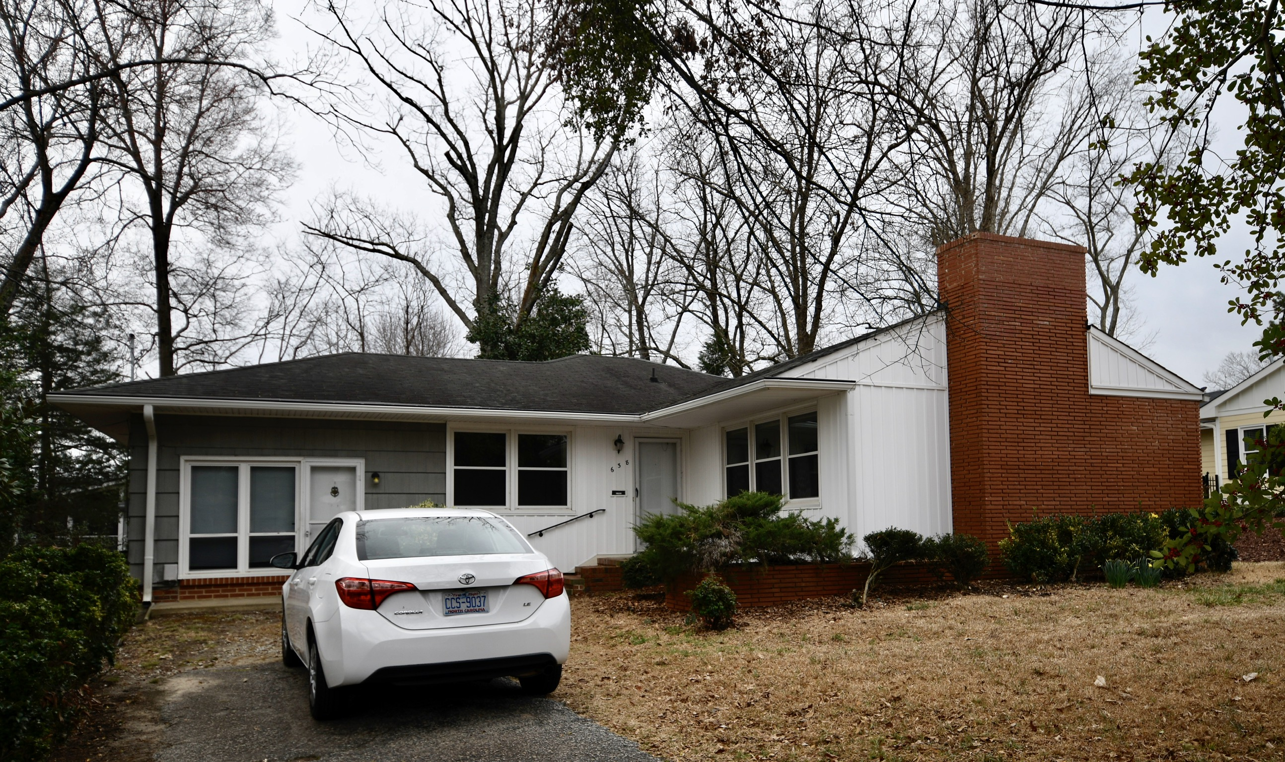 Suburban Houses in Cameron Village Historic District, Raleigh, North Carolina. Photographed during the Summer of Monuments 2014 camping trip. This image was uploaded as part of Wikipedia Summer of Monuments. English | +/−